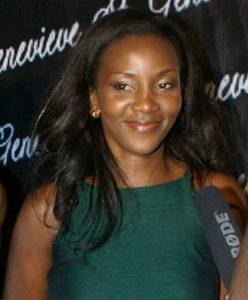 Picture of Genevieve Nnaji